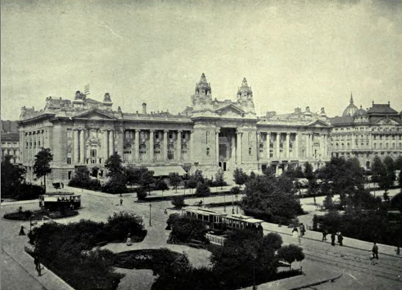 Stock market, Budapest, early 20th century. - Szabadság Square